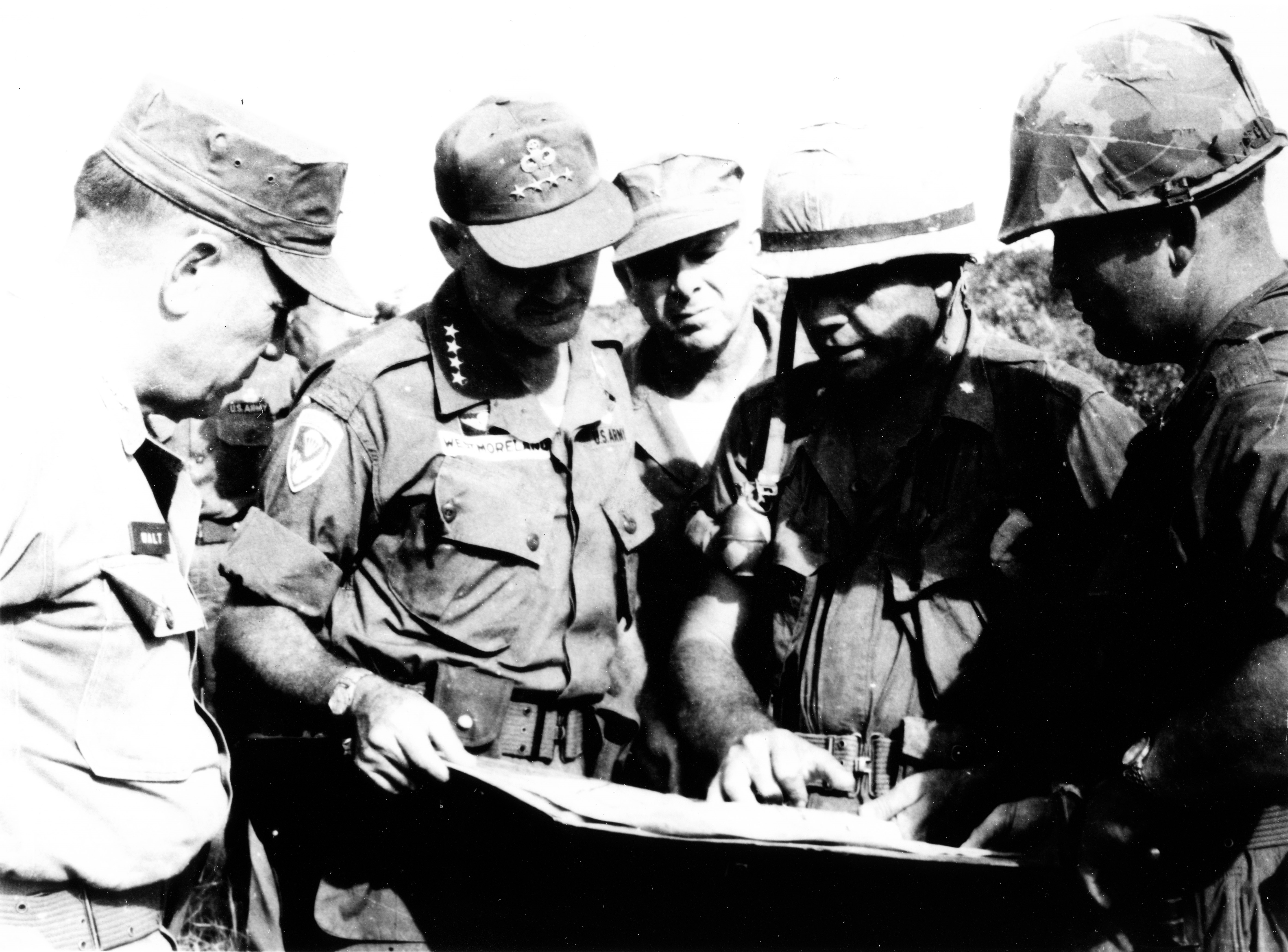 General William C. Westmoreland, ComUSMACV (center), together with senior Marine commanders, looks at a map depicting the battle situation in Operation Hastings. Lieutenant General Lewis W. Walt, Commanding III MAF, is to the left of General Westmoreland and BGen Lowell E. English, the Task Force Delta commander is to the right rear of Westmoreland. Second from right is Lieutenant colonel Van D. Bell, Commanding officer, 1st Battalion, 1st Marines and Captain J. H. Trehy.